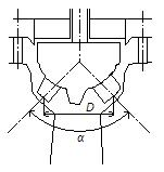 A sketch of diagonal turbine.